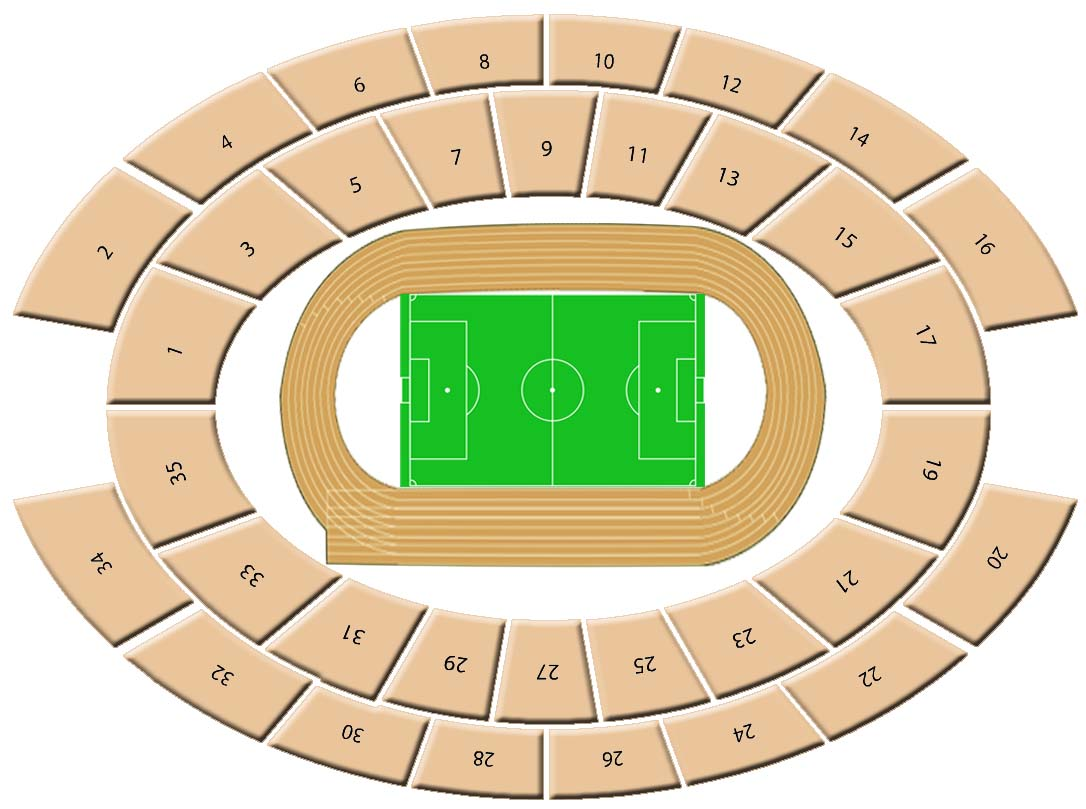 The plan of the Olympic Stadium Athens OAKA